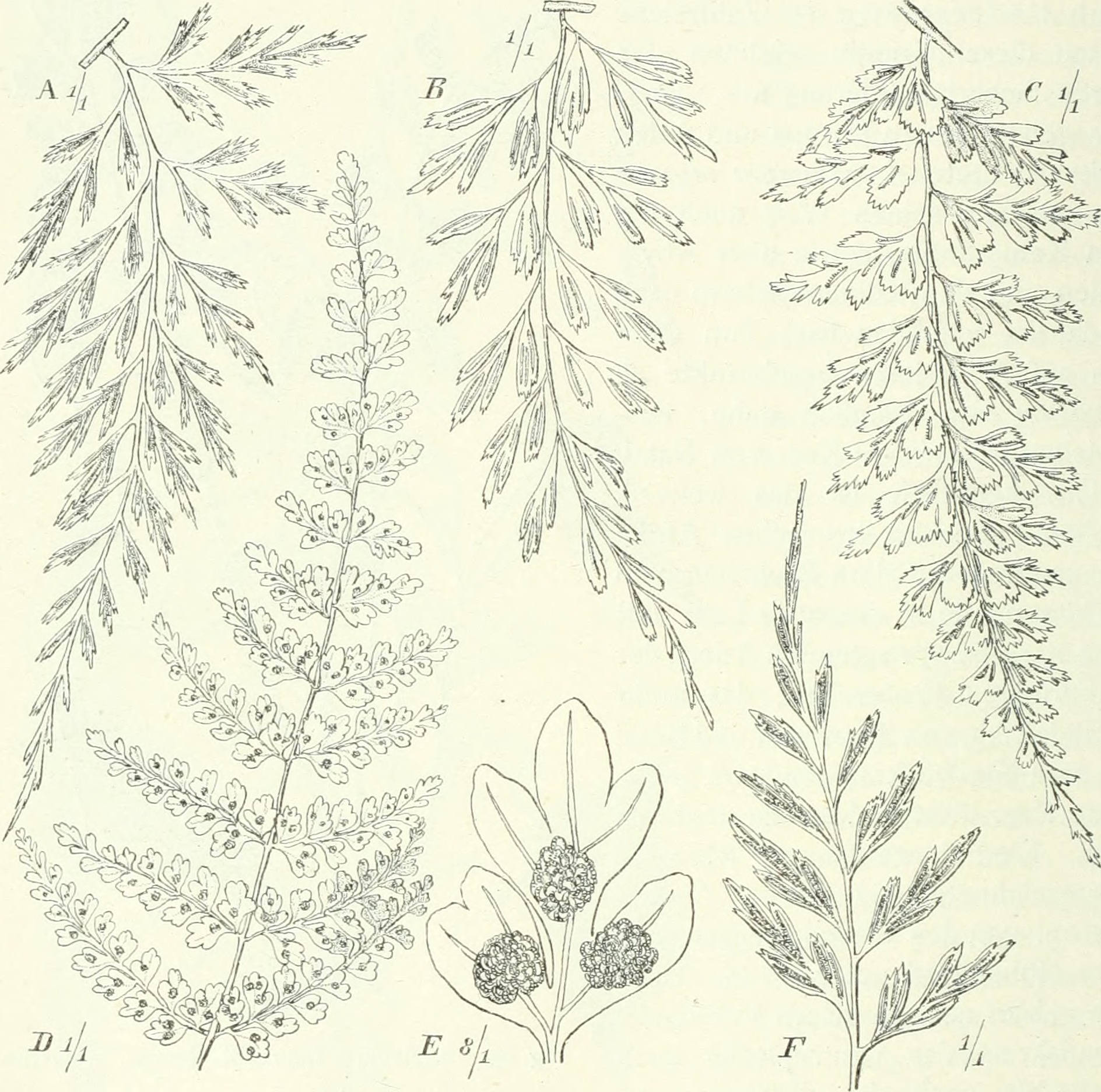 Title: Die Pflanzenwelt Afrikas, insbesondere seiner tropischen Gebiete : Grundzge der Pflanzenverbreitung im Afrika und die Charakterpflanzen Afrikas Year: 1910 (1910s) Authors: Engler, Adolf, 1844-1930 Subjects: Botany Publisher: Leipzig : W. Engelman Text Appearing Before Image: 30 Filicales. — Polypodiaceae. Hieron. (Fig. 26 C) und A. Linckii Kuhn (Fig. 26 ä)\ letzteres findet sich auch in Westusambara und im Gürtehvald des Kilimandscharo. — Fiederig geäderte, lanzettliche Abschnitte besitzt das im westlichen Mittelmeergebiet, dem atlan- tischen Europa und auch in Makaronesien vorkommende A. lanceolatmn Huds. — Ebenfalls fiederige Aderung kommt dem A. ciaitarium (L.) Sw. zu, dessen Fiedern zweiter Ordnung gestielt und fast bis zur Spindel eingeschnitten sind; Text Appearing After Image: Fig. 26. A Asplenium Linkii Kuhn, Kilimandscharo; B A. praemorsum Sw. var. tripinnatum Bak., üsambara; C A. Volkensii Hieron., Kilimandscharo; Z?, E A. abyssinicum Fee, Abyssinien; F A. praemorsum Sw., Üsambara. diese Pflanze ist ebenso im tropischen Amerika, wie im tropischen Afrika ver- breitet, in Ostafrika vom Kilimandscharo und Üsambara bis zu den Magalis- bergen. Zwei sehr schöne Hochgebirgsarten dieser Gruppe sind A. Kithniamnn C. Chr. (in der oberen Waldregion von Uluguru bis zum Kenia) und A. abyssini- cum Fee (Fig. 2b D^ E^ von Abyssinien über den Kirunga-Vulkan zu verfolgen bis zum Kamerungebirge).